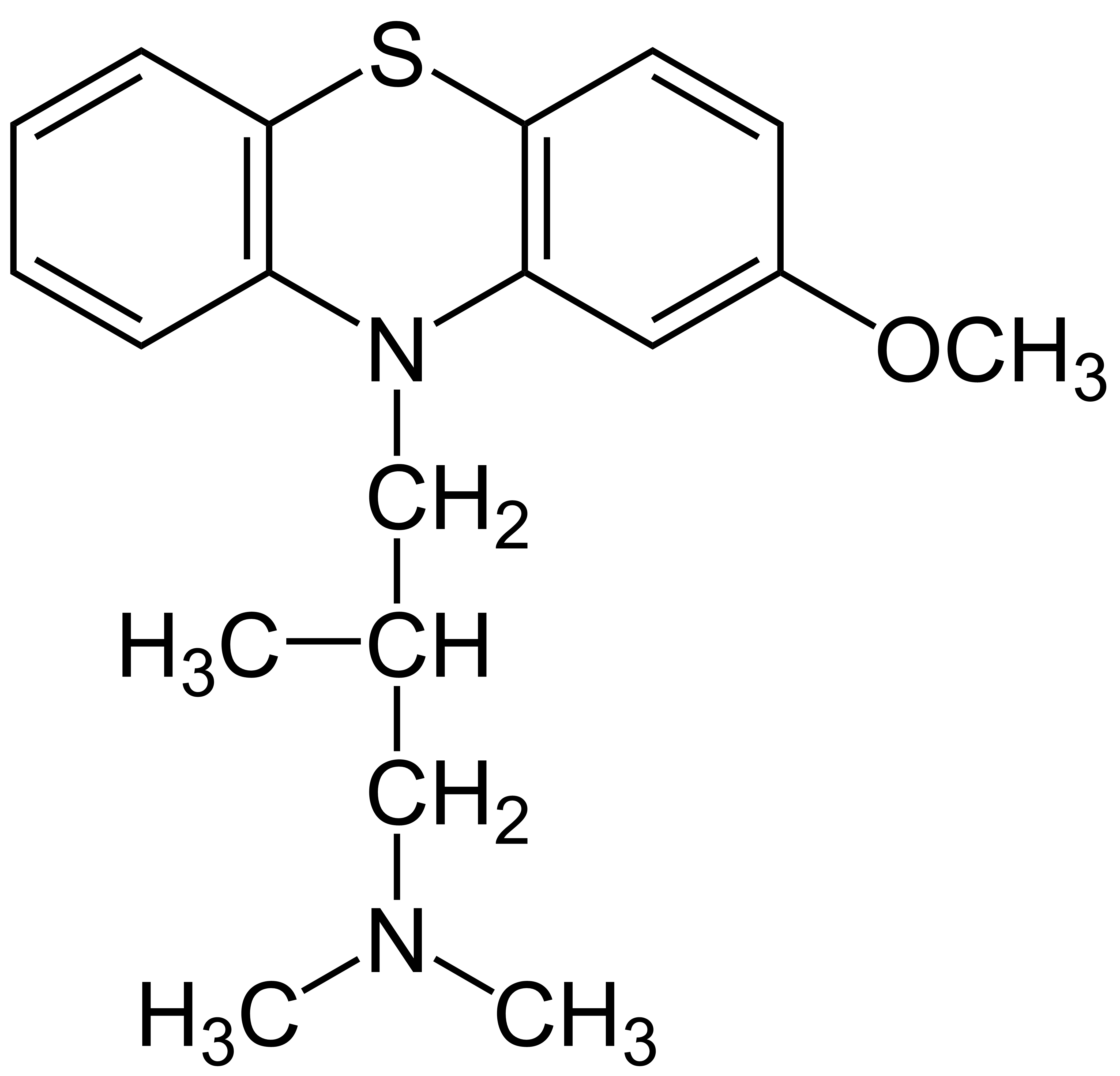 Skeletal formula of levomepromazine